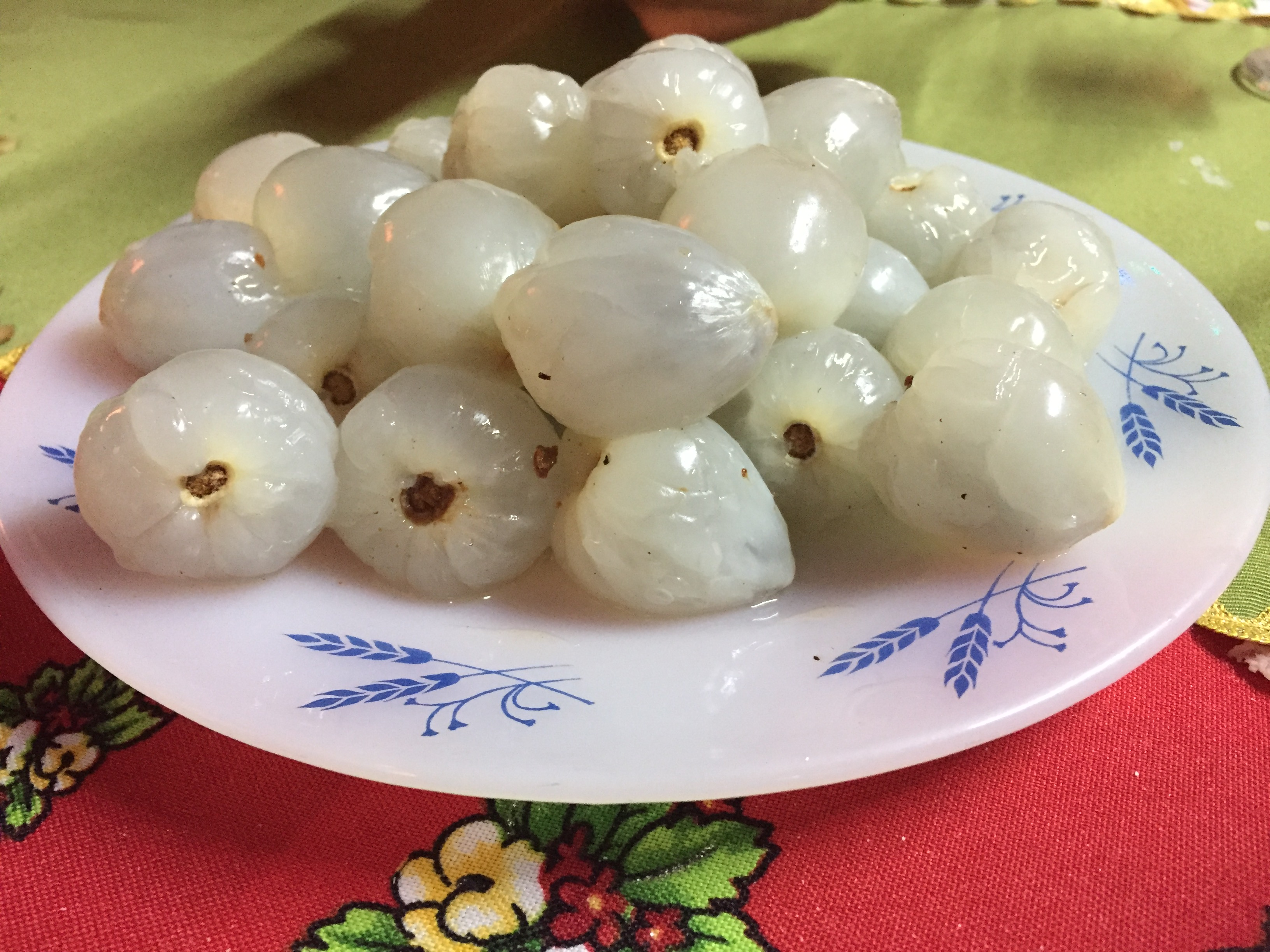 Plate of peeled lychee fruit December 2019